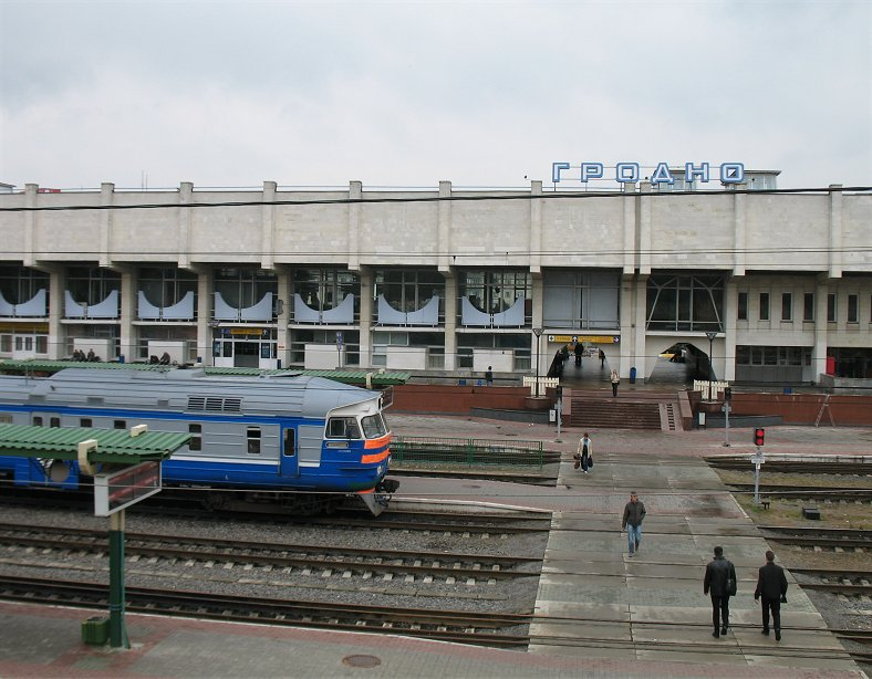 Railway station of Hrodna (Гро́дна, Гродно, Grodno, Gardinas), Belarus.